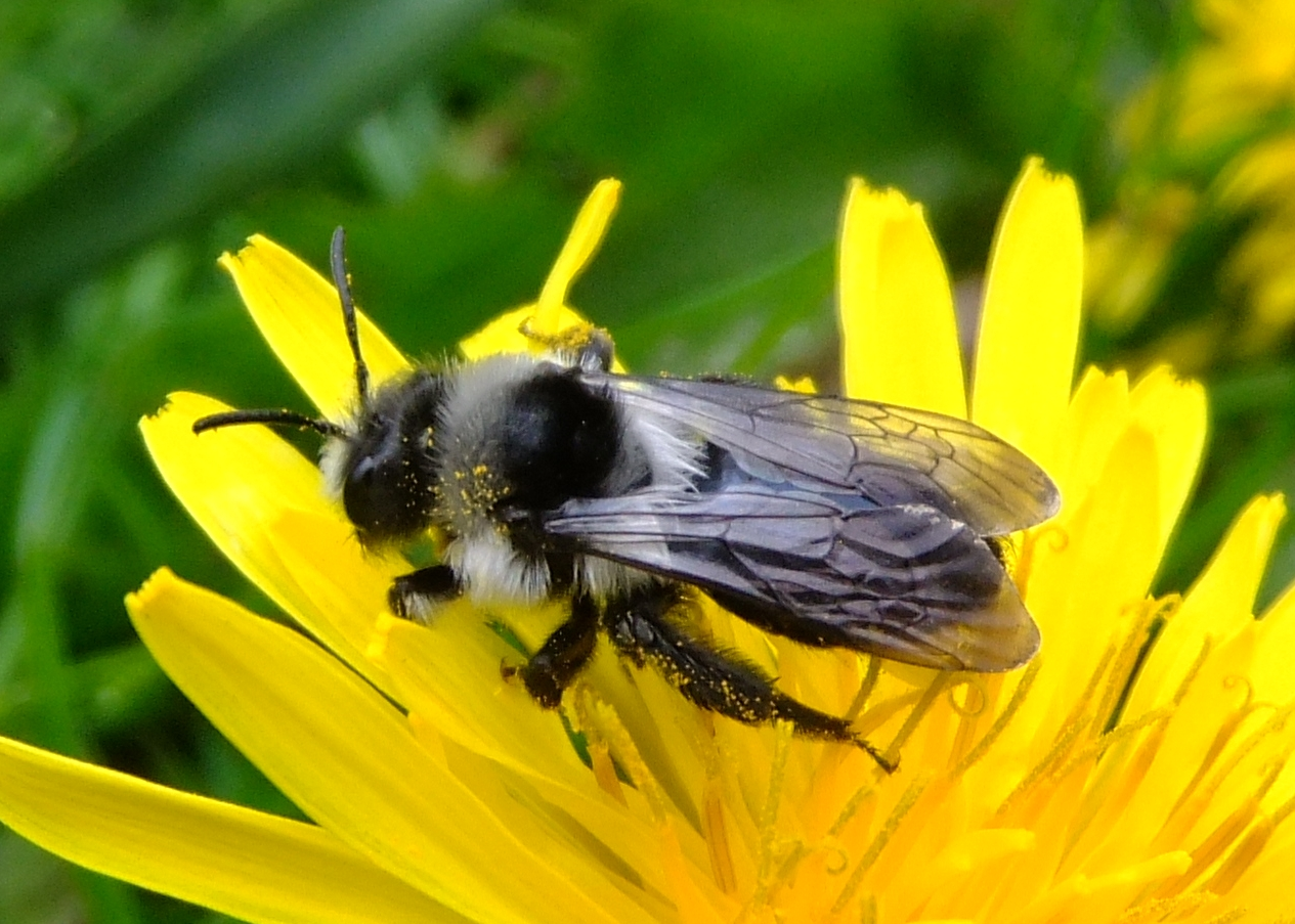 Ashy mining bee (Andrena cineraria), Hepworth, Yorkshire